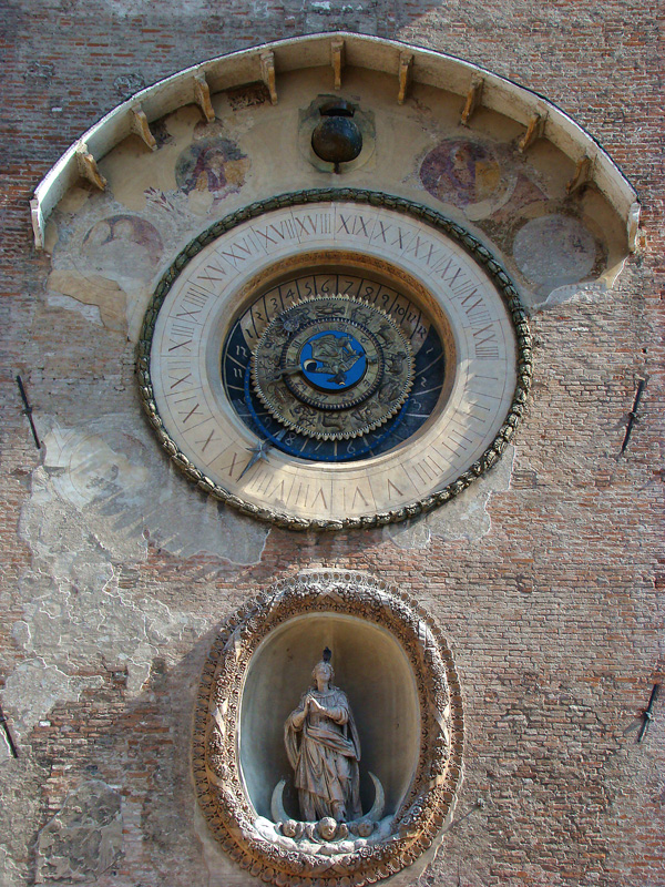 Piazza delle Erbe, Mantua, Lombardy, Italy. 15th Century astronomical clock on the face of the Torre dell'Orologio, Palazzo della Ragione.